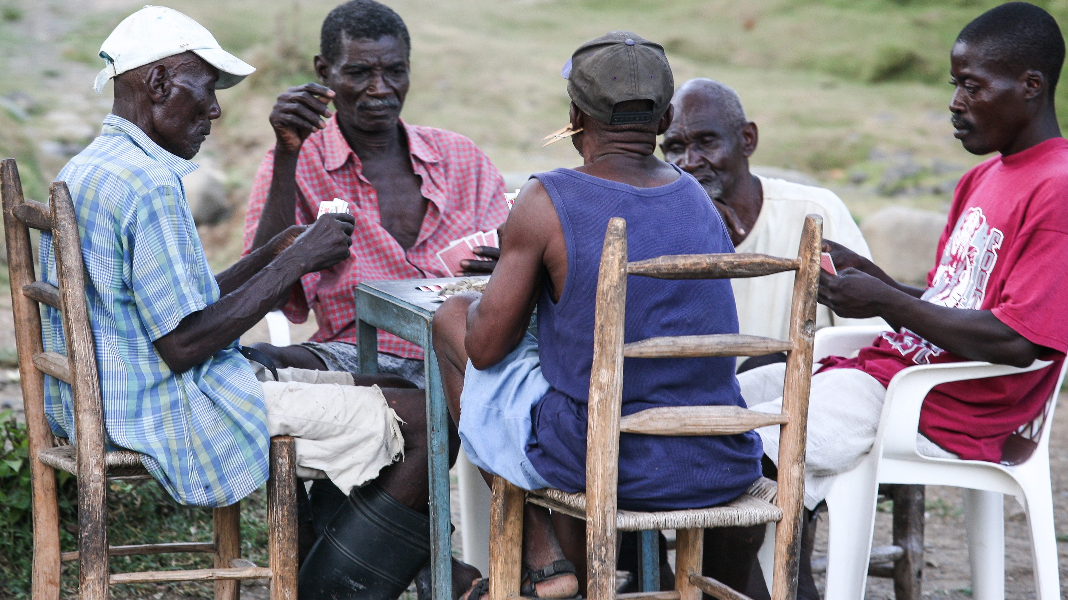 For each game the loser has to wear a peg on their ear. Often you see guys with 10+ pegs on their ears!